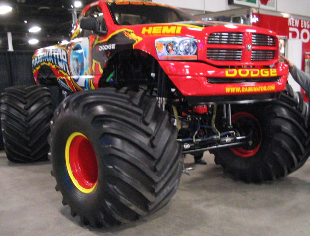 Raminator, taken in January 2006 by Arenacale 19:13, 21 June 2006 (UTC)